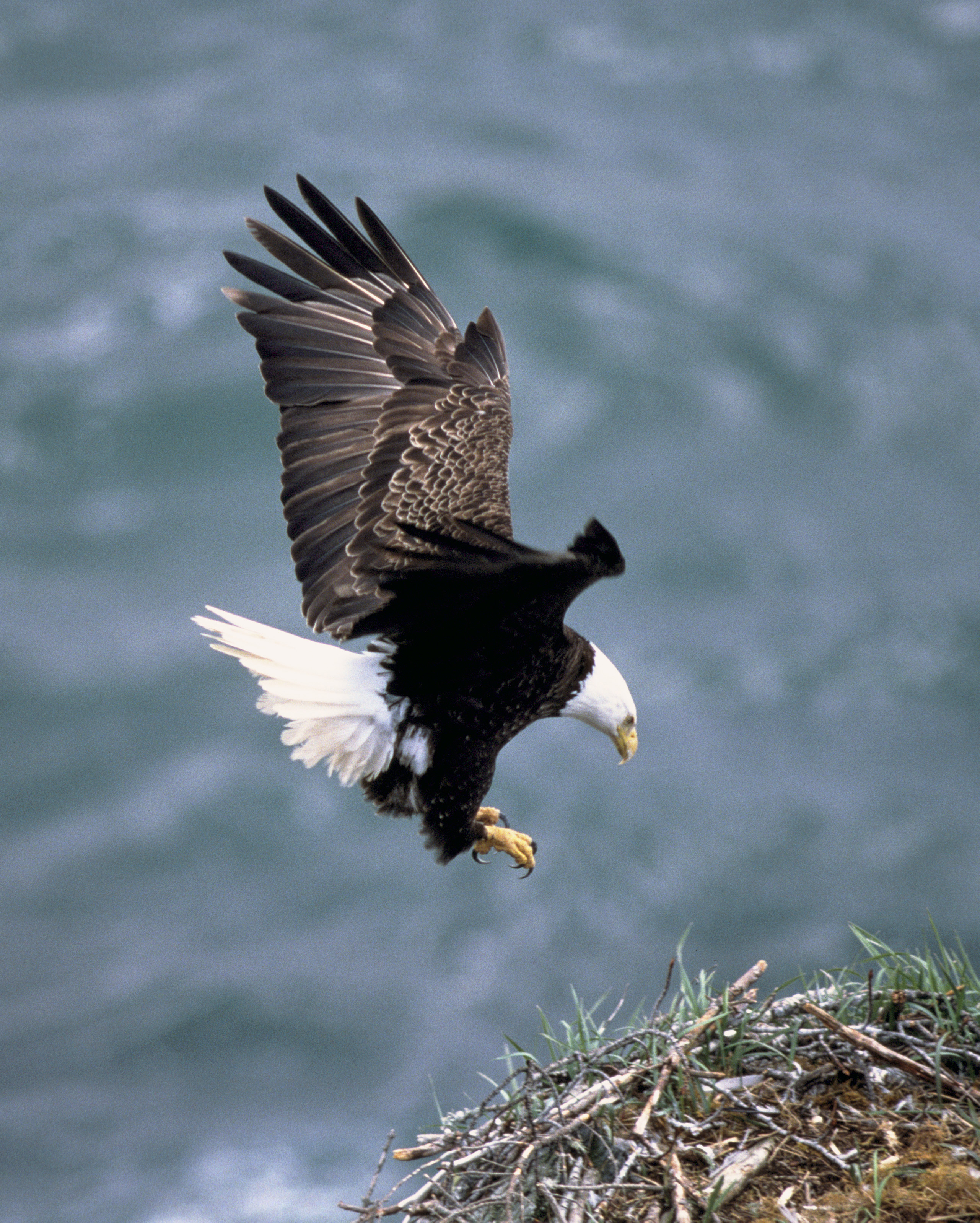 Haliaeetus leucocephalus (bald eagle) landing into his nest. Bald eagles generally lay 2 to 3 eggs in a large nest made of sticks and smaller twigs in tall trees or on rocky cliffs. Picture taken on Kodiak Island.